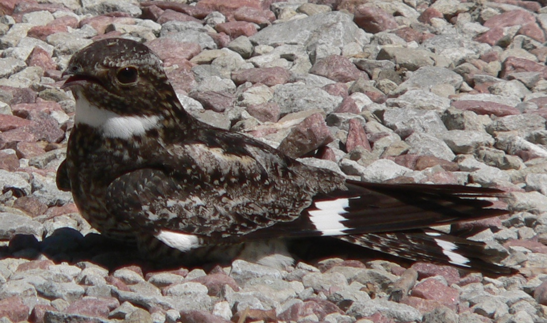 Common Nighthawk (Chordeiles minor) in Dakota City, Nebraska. The bird was photographed at about noon on a hot day (about 80 degrees F, or about 26 C). It was sitting on a crushed-rock pavement at ground level, in full sun. The throat was vibrating; presumably, gular fluttering.